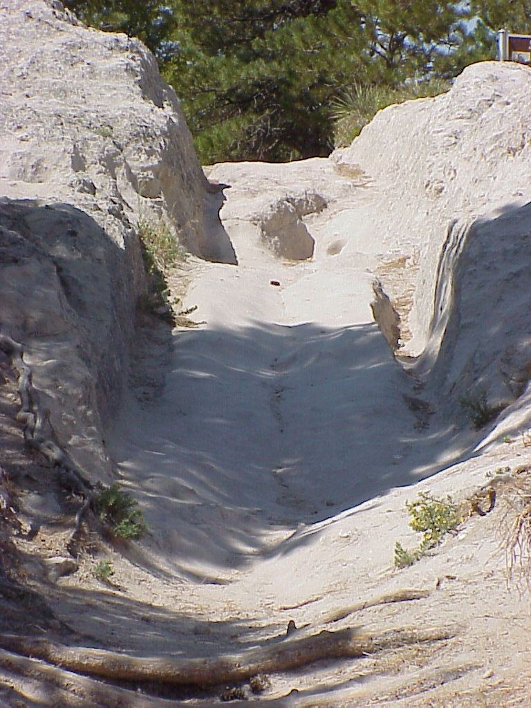 Oregon Trail Ruts, part of the Oregon Trail in Wyoming. The trails of the hooves (top) and the whiels (right) are still visible.